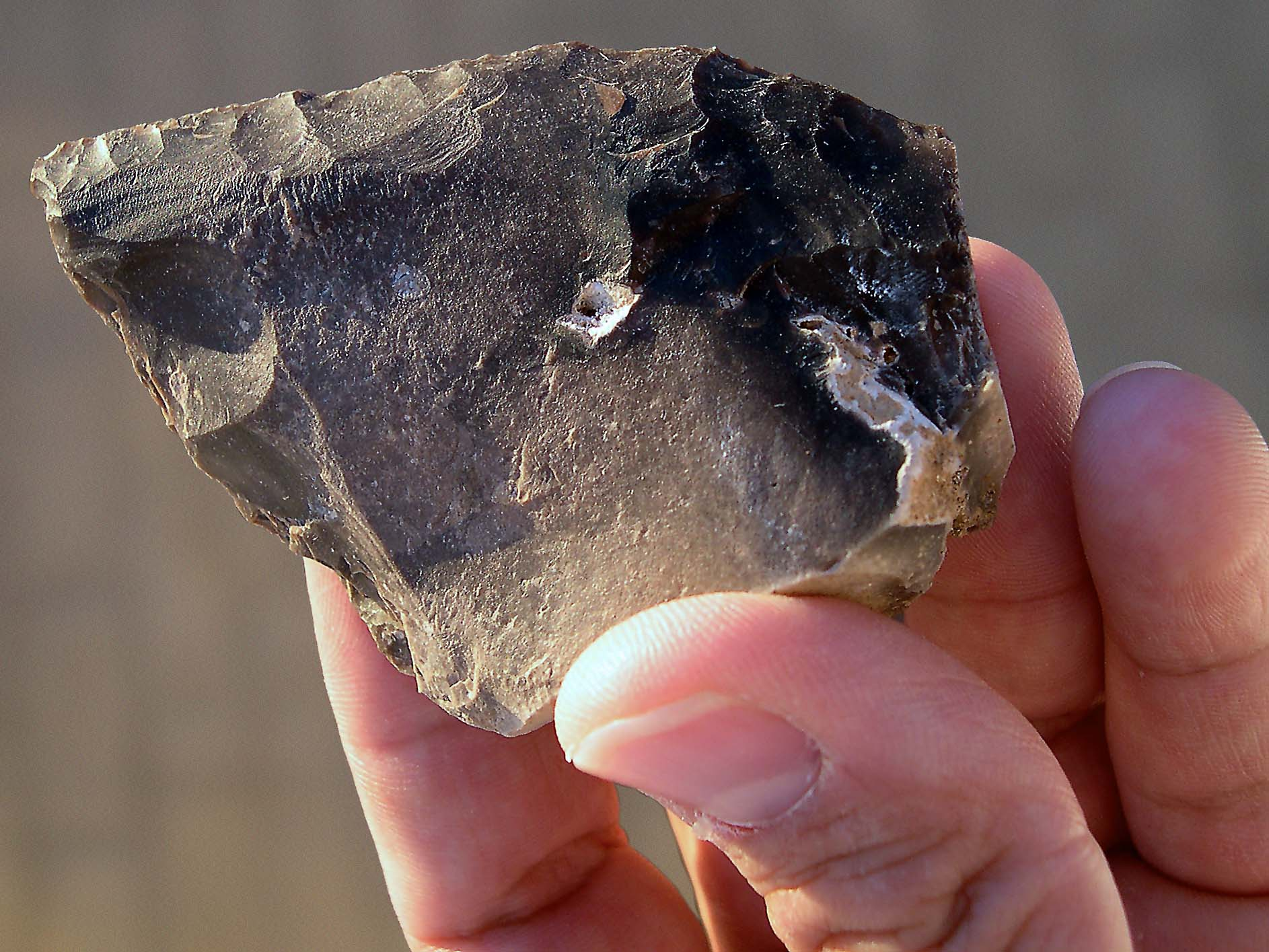 Scraper knapped in a experiment of replica on a blank of coarse grain flint